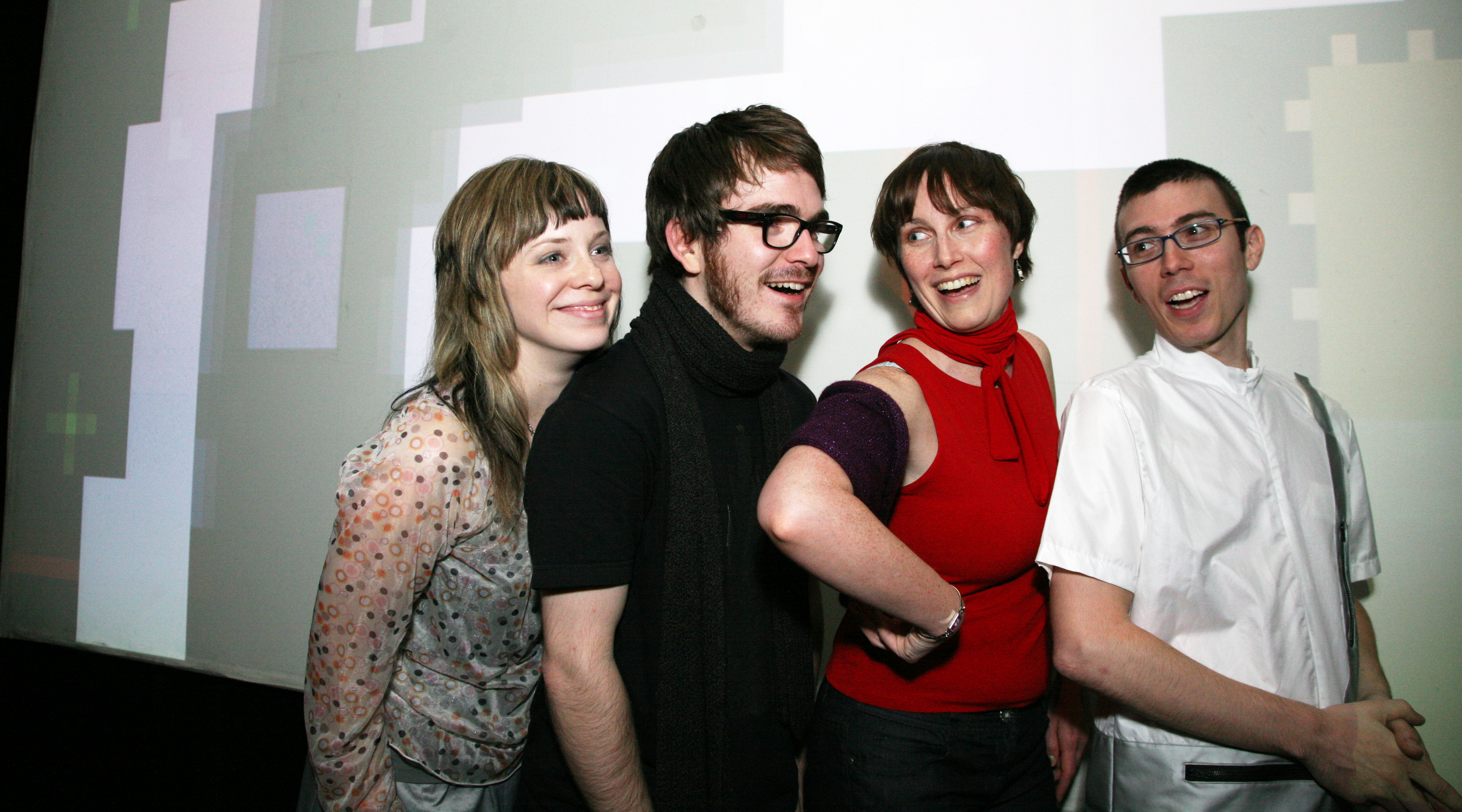 The Kokoromi colletive − Cindy Poremba, Phil Fish, Heather Kelley and Damien di Fede − during the gamma 256 event in 2007.